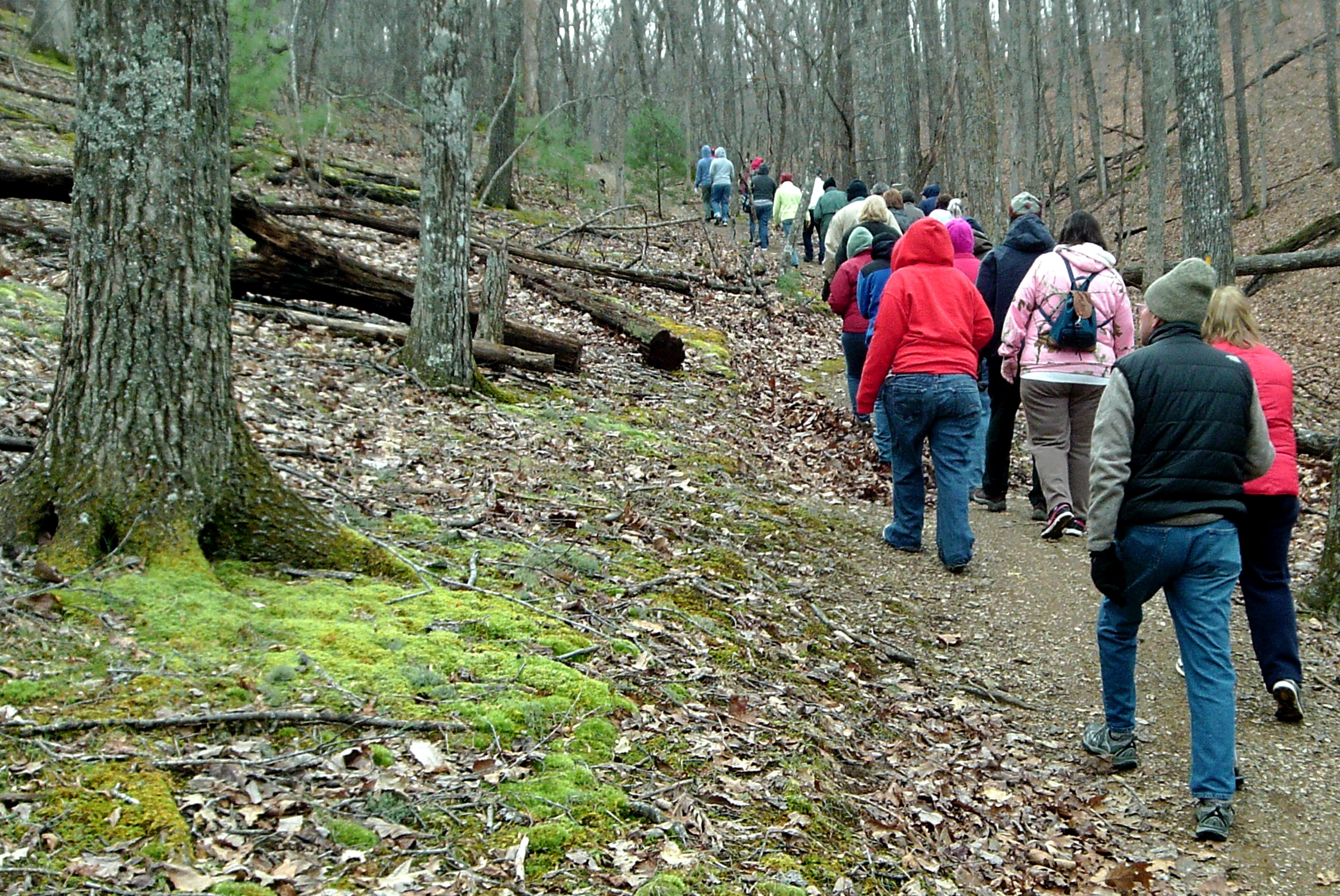 Photo contest entry